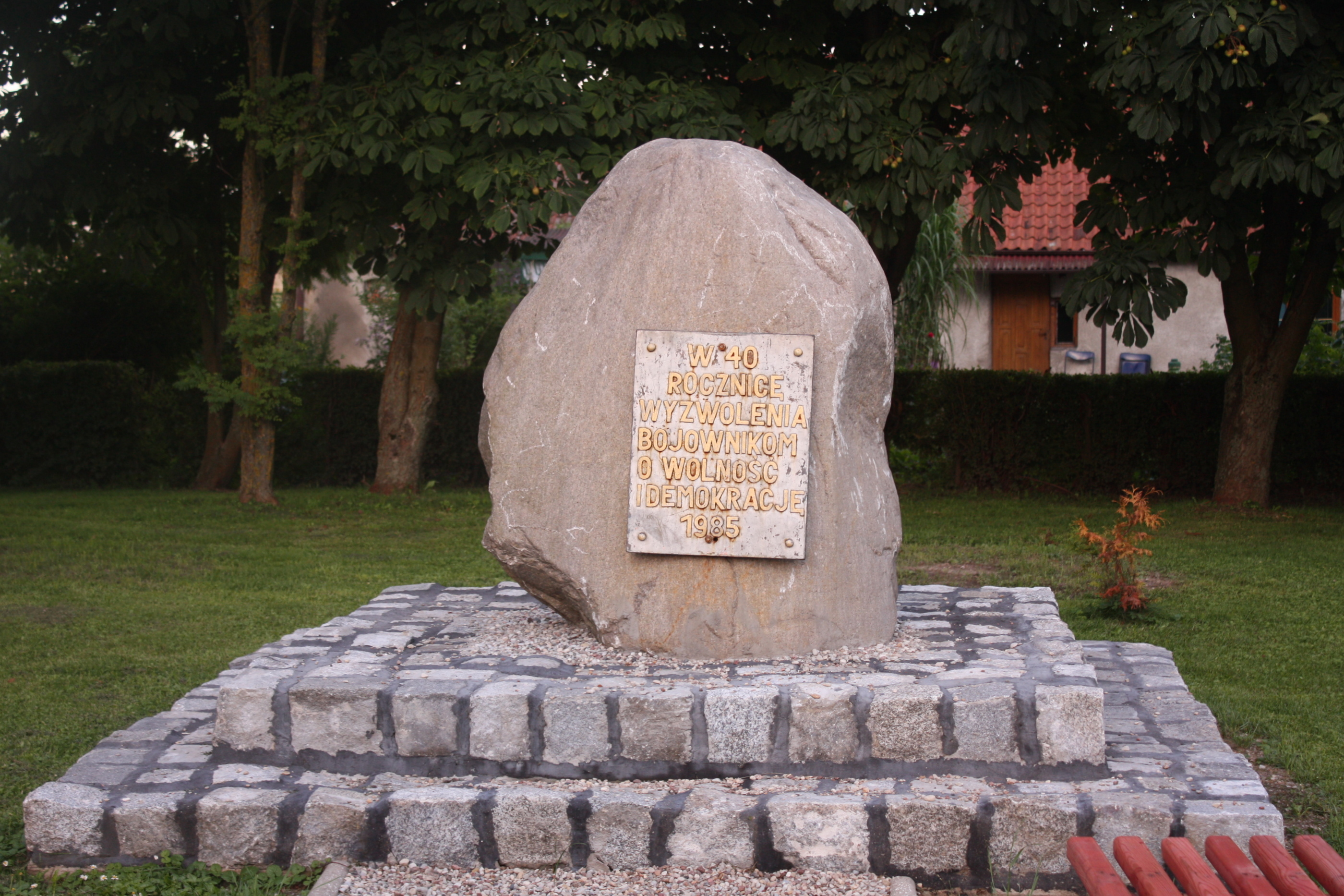 This photo of Warmian-Masurian Voivodeship was taken during Wikiexpedition 2012 set up by Wikimedia Polska Association.You can see all photographs in category Wikiekspedycja 2012. The making of this document was supported by Wikimedia Polska.